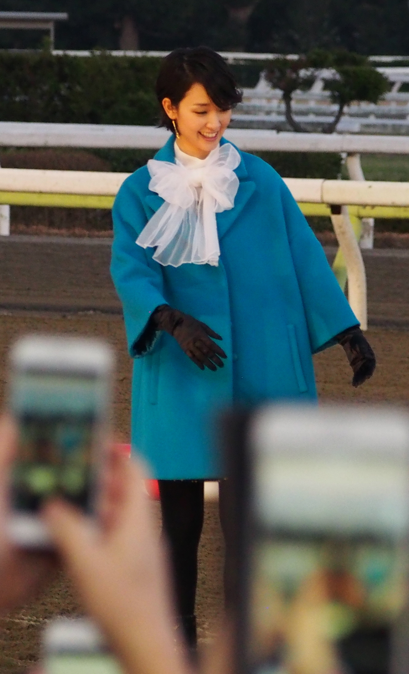 Ayame Goriki in Tokyo Daishoten Day at Oi racecourse